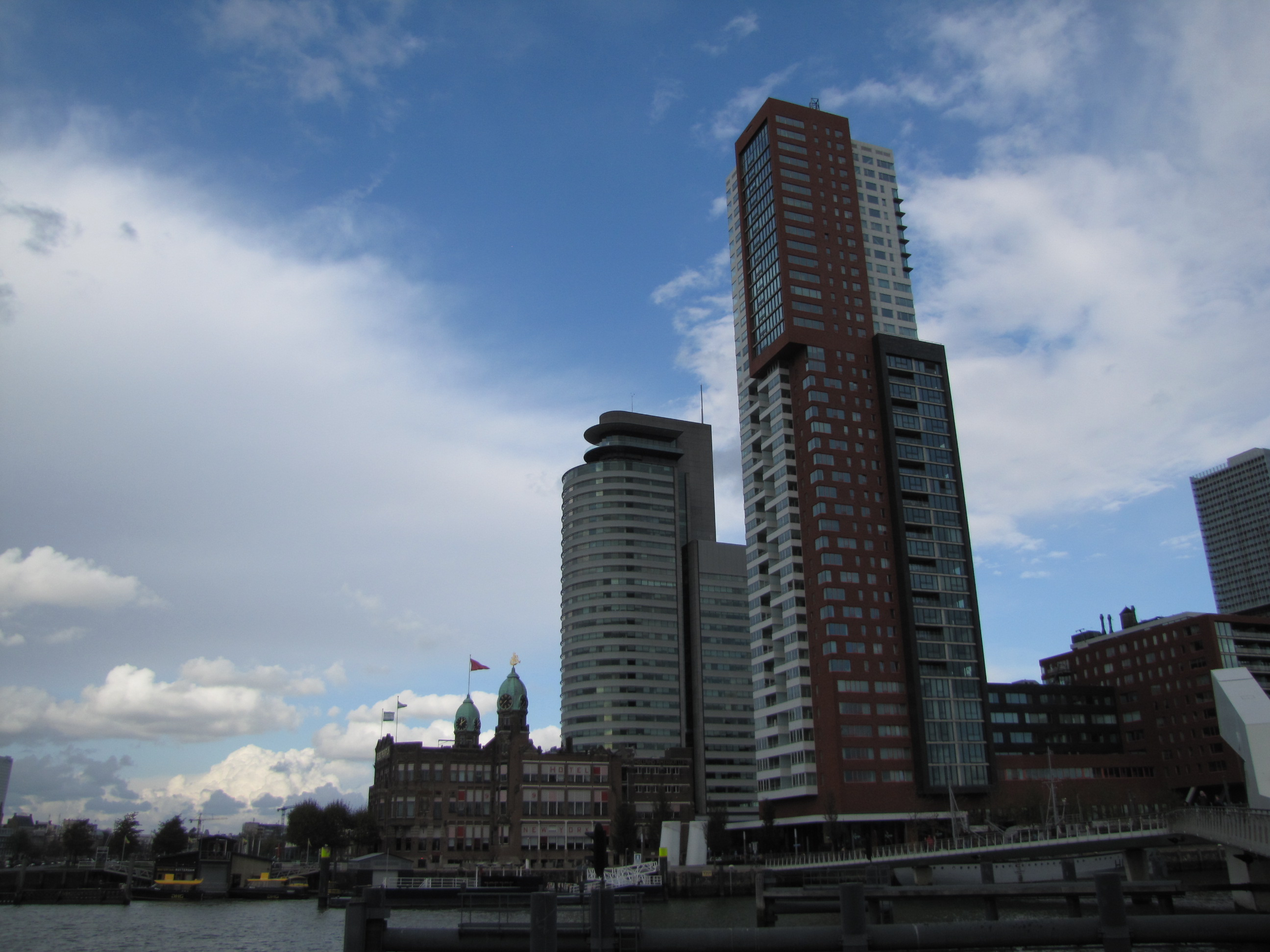 Pictures of Rotterdam on the 5th november 2017.